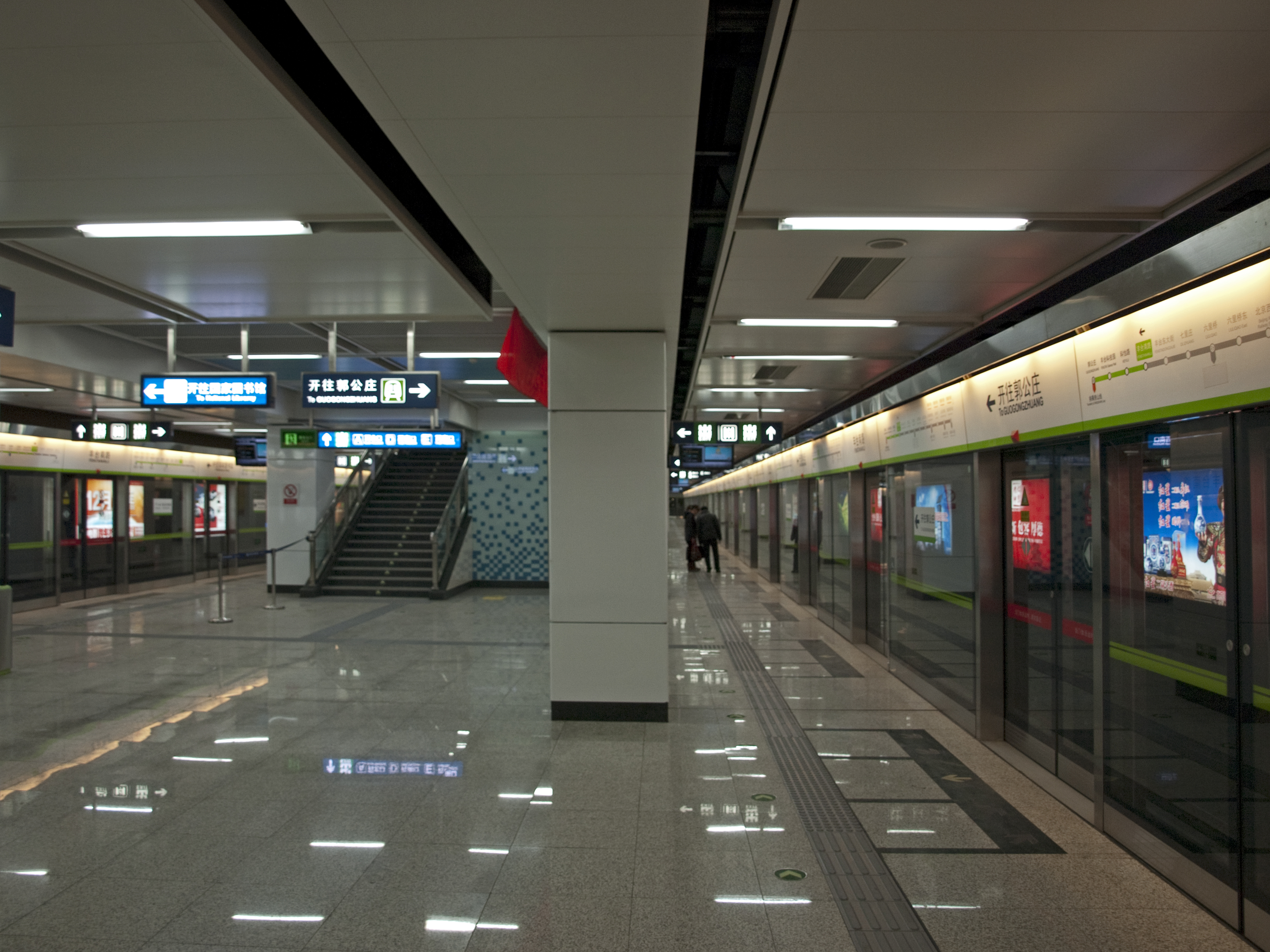 Fengtainanlu station, Beijing Subway